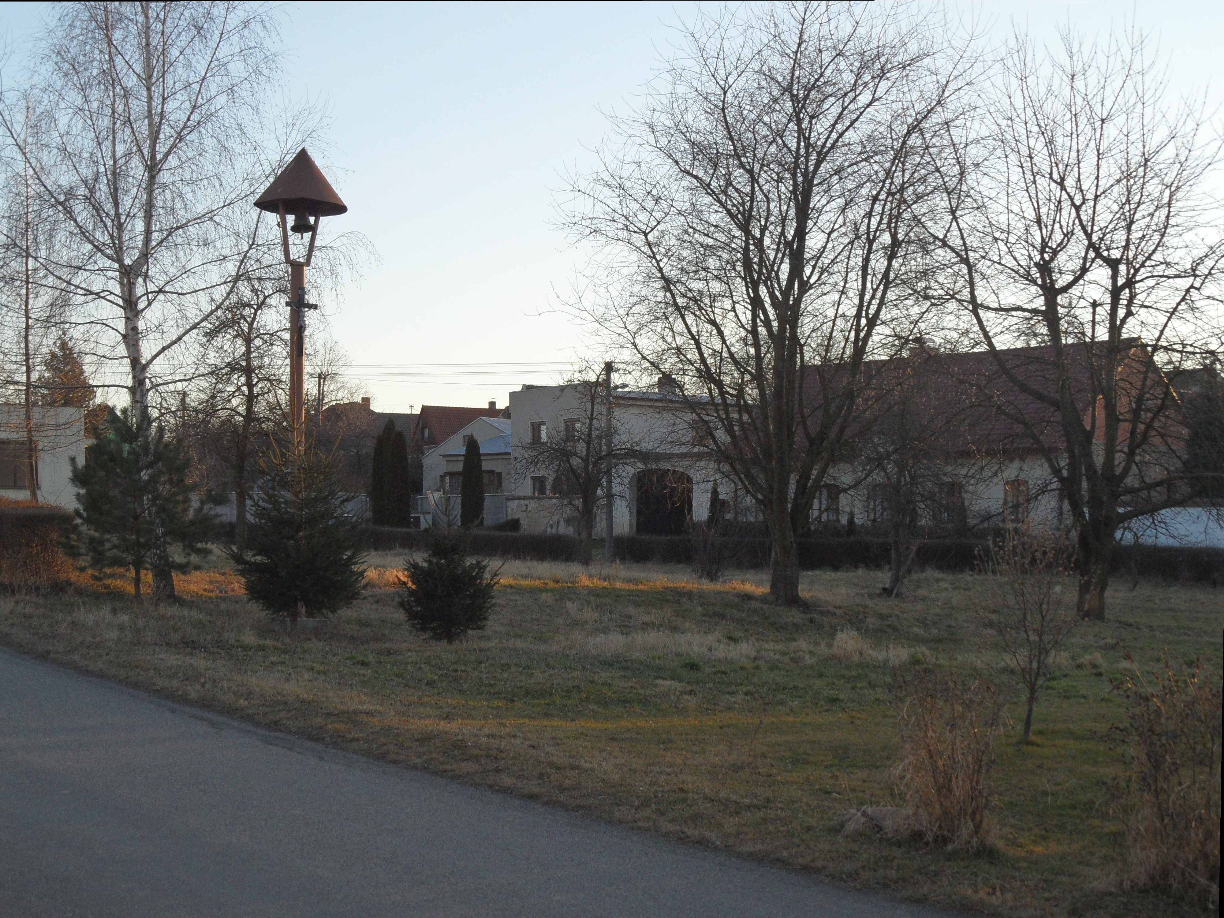 Stupárovice I. Overview of Village Square with Bell Tower, Houses in Background, Havlíčkův Brod District, the Czech Republic.